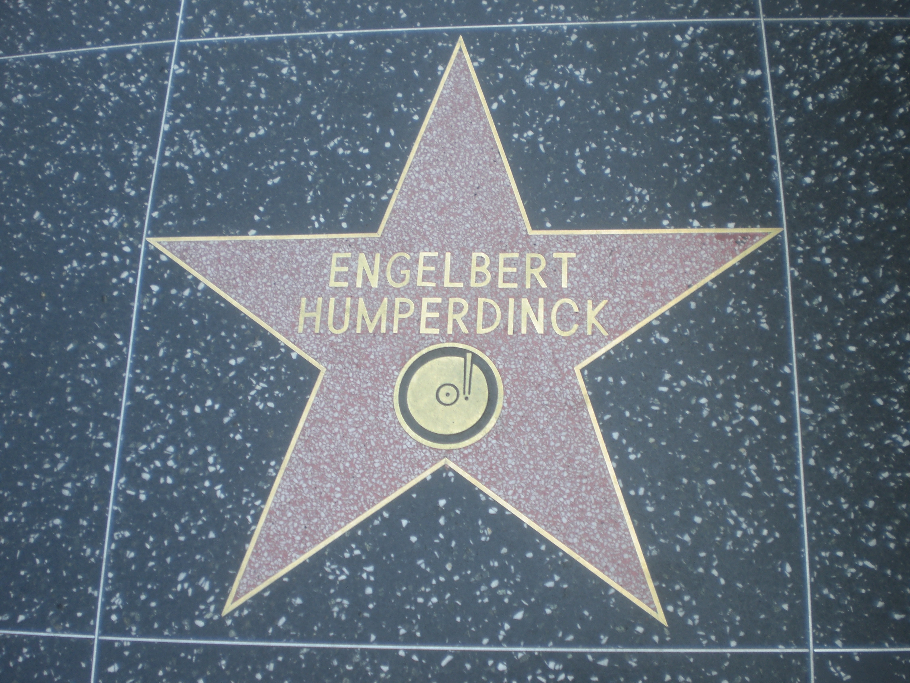 Engelbert Humperdinck's star on the Hollywood Walk of Fame